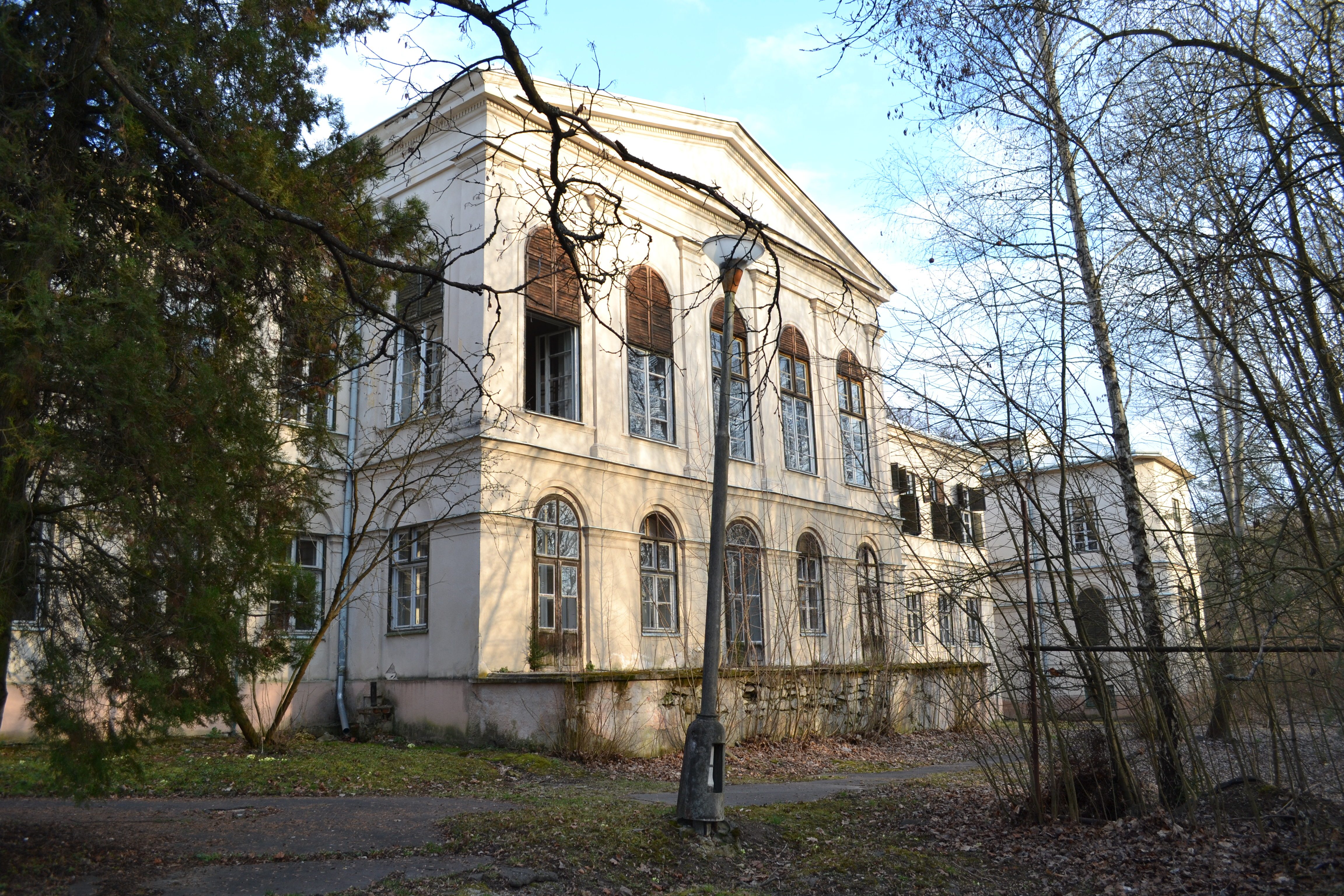 Spa Sliač, house Detva (originally Pest)